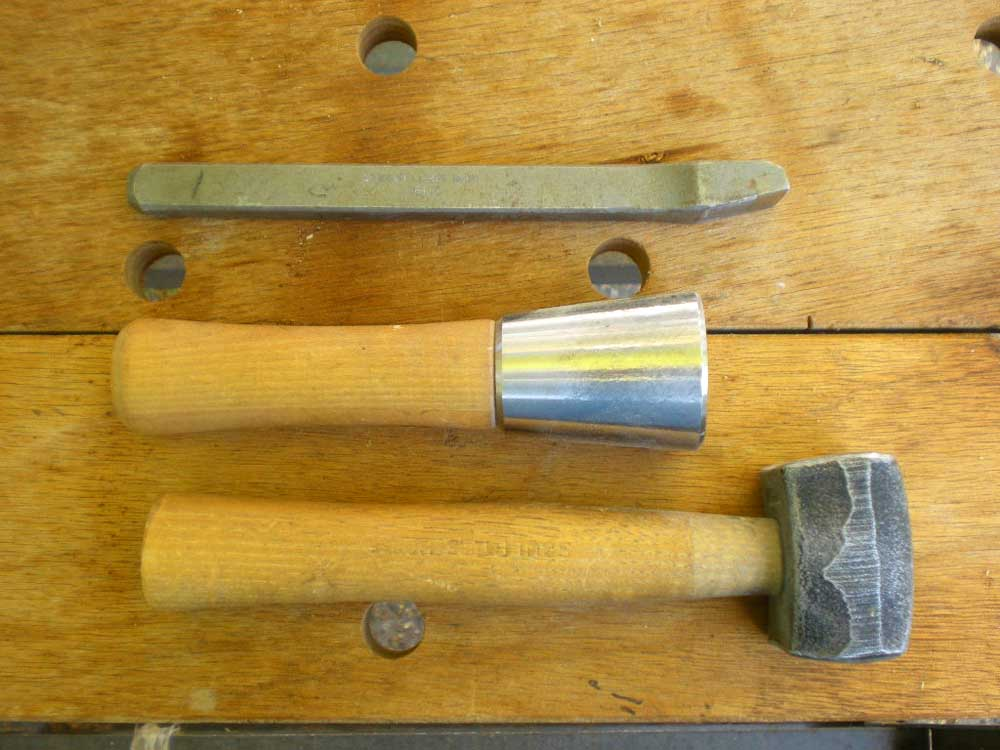 Two stonemason's mallets and pitch chisel